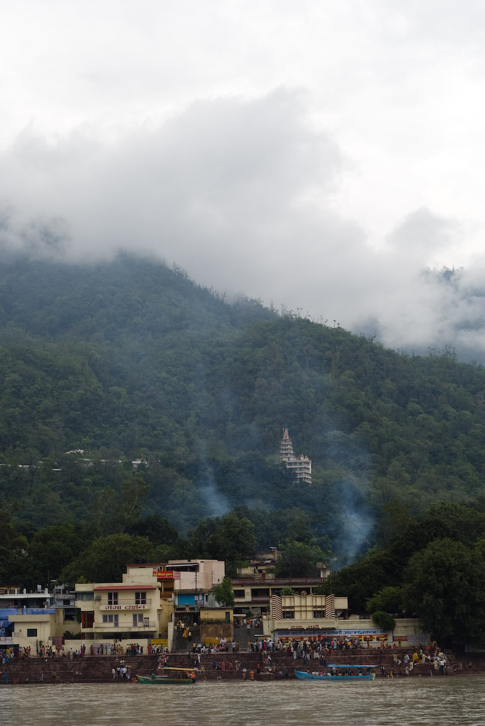 Ghats by the River Ganga, Rishikesh.